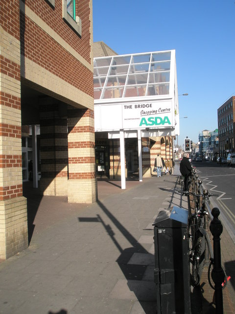 Entrance to "The Bridge" A shopping centre in the Fratton district of Portsmouth.